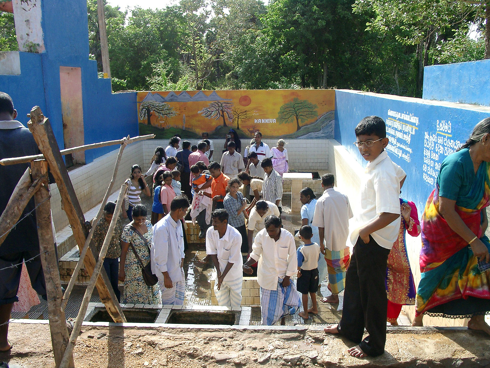 Hot Wells near Trincomalee in Sri Lanka